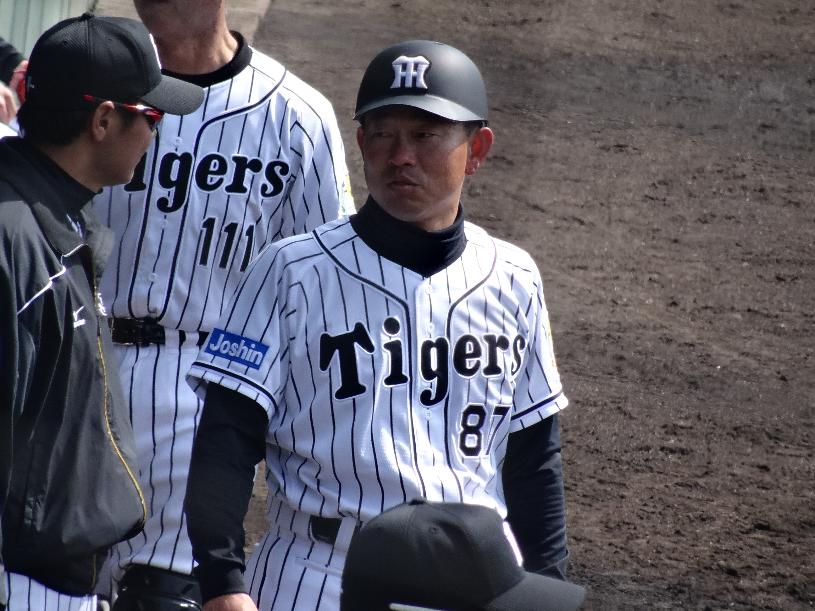 Yutaka Nakamura, coach of the Hanshin Tigers, at Hanshin Naruohama Baseball Ground.